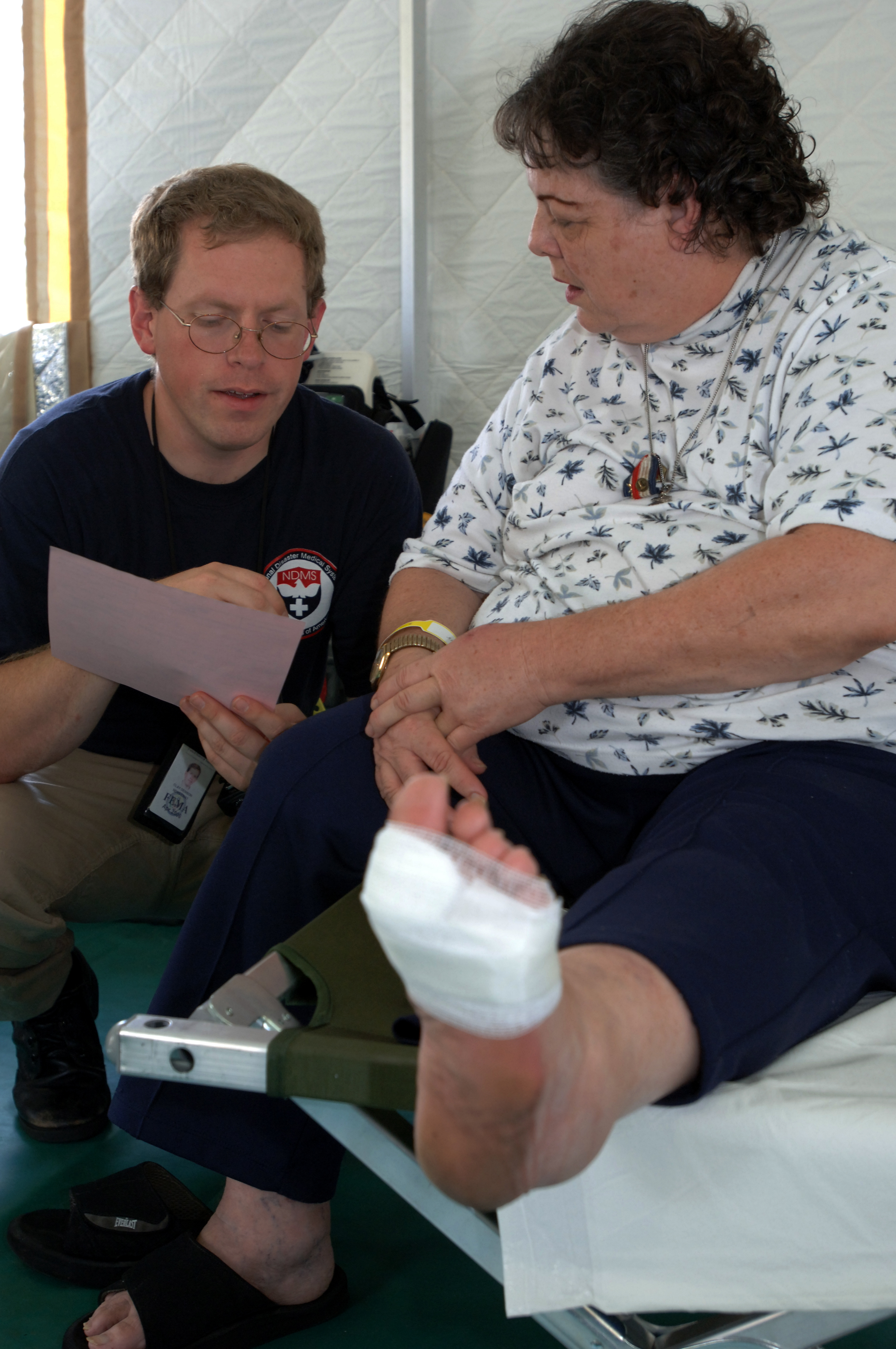 Plantation, FL, October 28, 2005 -- Clay Denison, pharmacist on the FEMA Disaster Medical Assistance Team explains prescriptions to Marnie Tice of Ft. Lauderdale after she is treated for a foot injury and hand injury at the DMAT set up at Westside Regional Medical Center to help the flow of patients visiting the emergency room. Jocelyn Augustino/FEMA